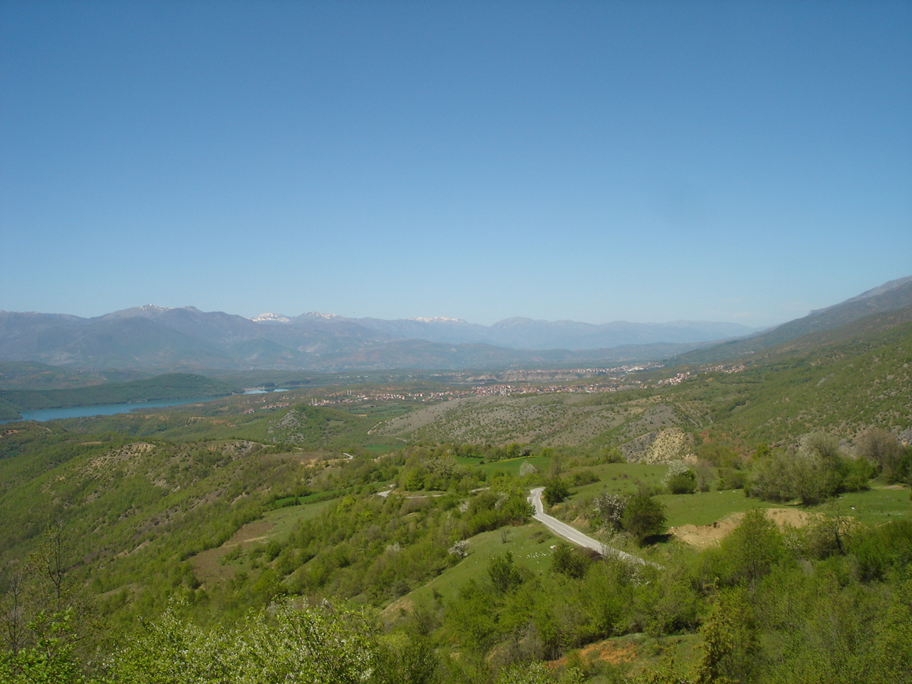 Region of Župa in the western part of Macedonia